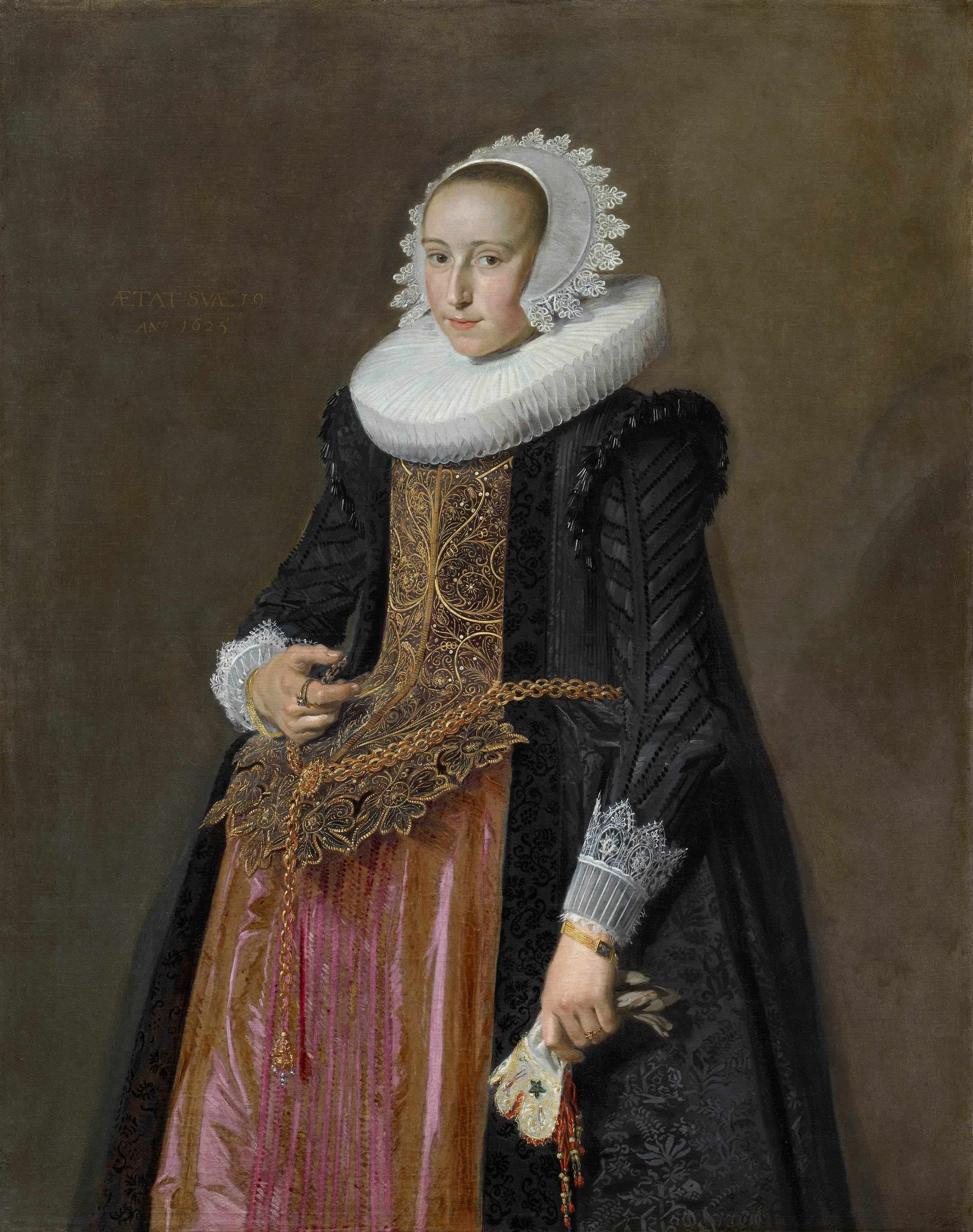 Portrait of Aletta Hannemans, who married Jacob Pietersz Olycan in 1624 and Nicolaes van Loo in 1640. She is shown three-quarters-length, standing, turned three-quarters left, looking at the spectator. She wears a costly bridal stomacher called a "bruidsborst", worked with gold thread and showing various flowers. She wears it over a colorful purple and red skirt that is draped over a French fardegalijn, which supports the heavy gold chain wrapped around her gown and through her "vlieger". Her vlieger is edged with black velvet and shows off her stomacher and skirt. Her sleeves are attached via shoulder wings to her dress with small silver aglets. Around her neck she wears a starched linen figure-eight collar, and over her hair a diadem cap with lace edging. She holds a pair of embroidered bridal gloves and wears a wedding ring on her right forefinger. She also wears gold bracelets and lace wrist collars. Both this painting and the pendant painting of her husband were restored in 2007. During restoration, technical analysis confirmed what had long been thought, that the poorly rendered coats of arms were later additions not by Frans Hals (the pigment Prussian blue was found, but this pigment was first synthesized in 1706). The decision was taken to over paint the arms. Water soluble paints were used so that the over painting may be easily removed at a later date should this be wanted.